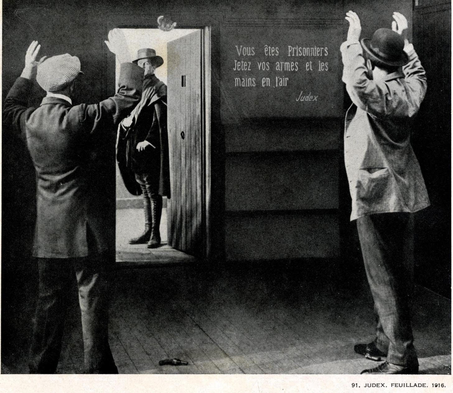 Screenshot from the film Judex by Louis Feuillade